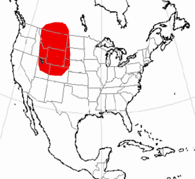 Range of Leptotragulus based on fossil record